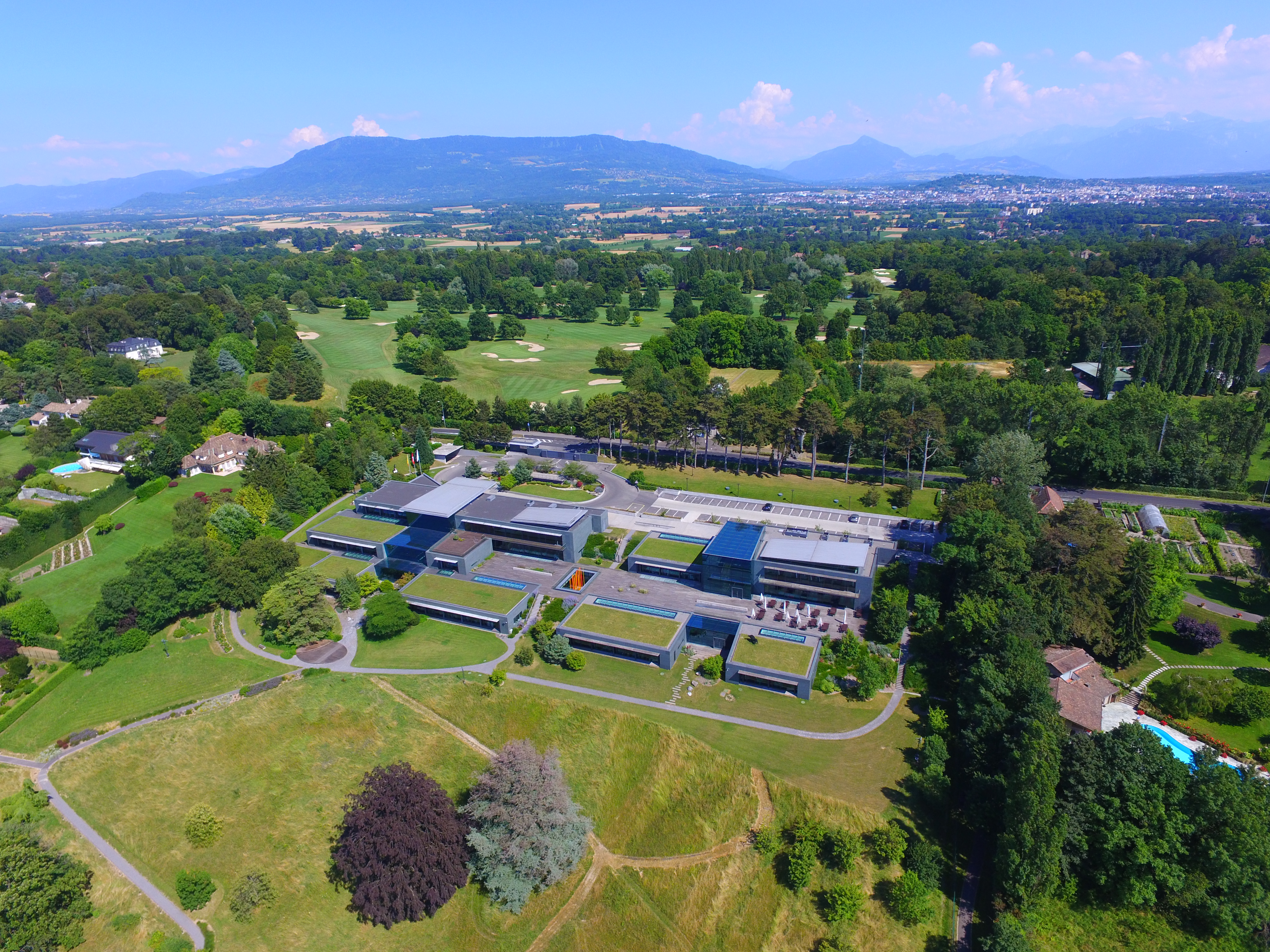 World Economic Forum headquarters in Geneva, Switzerland.